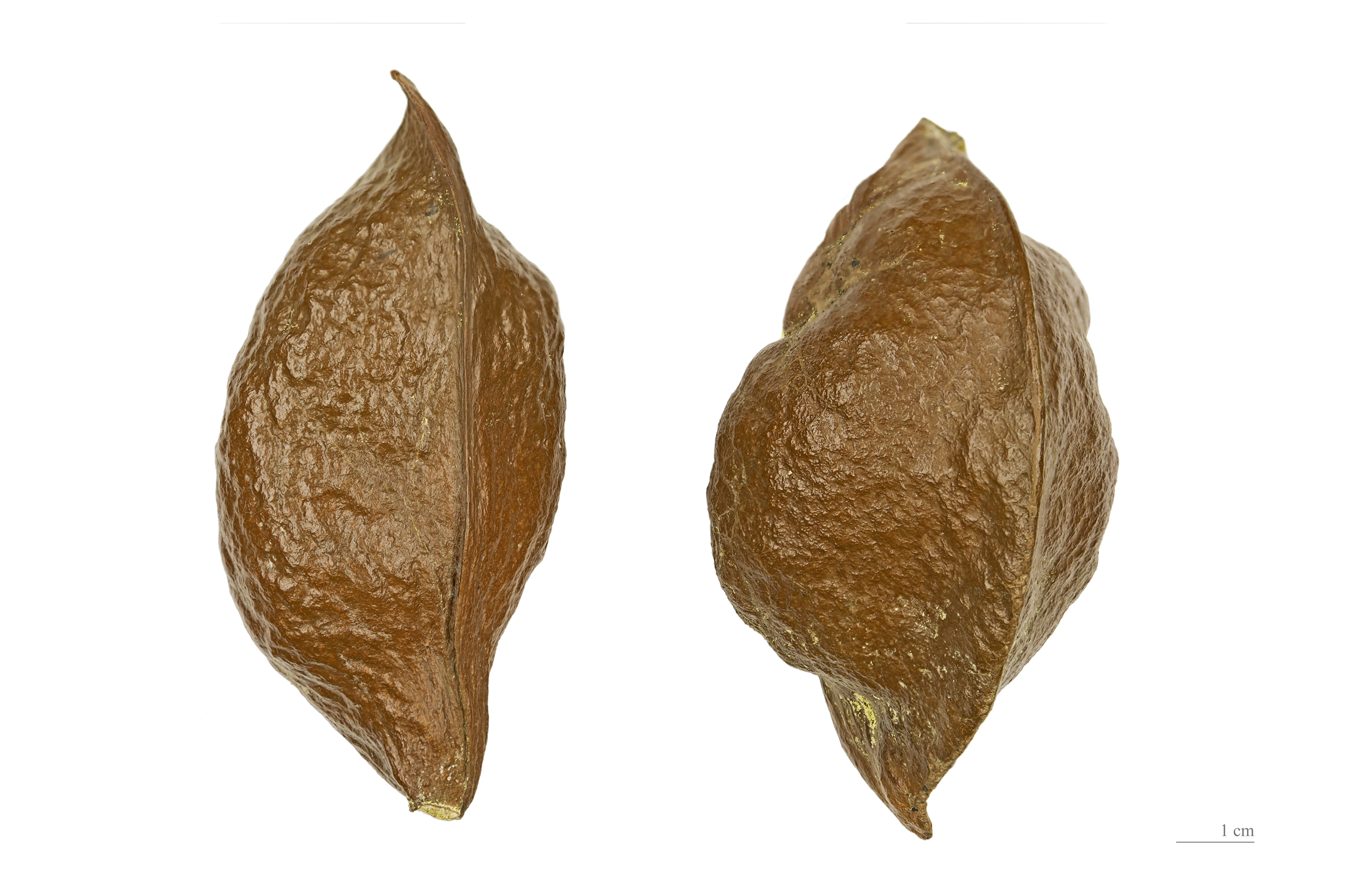 Fruit of looking-glass mangrove.